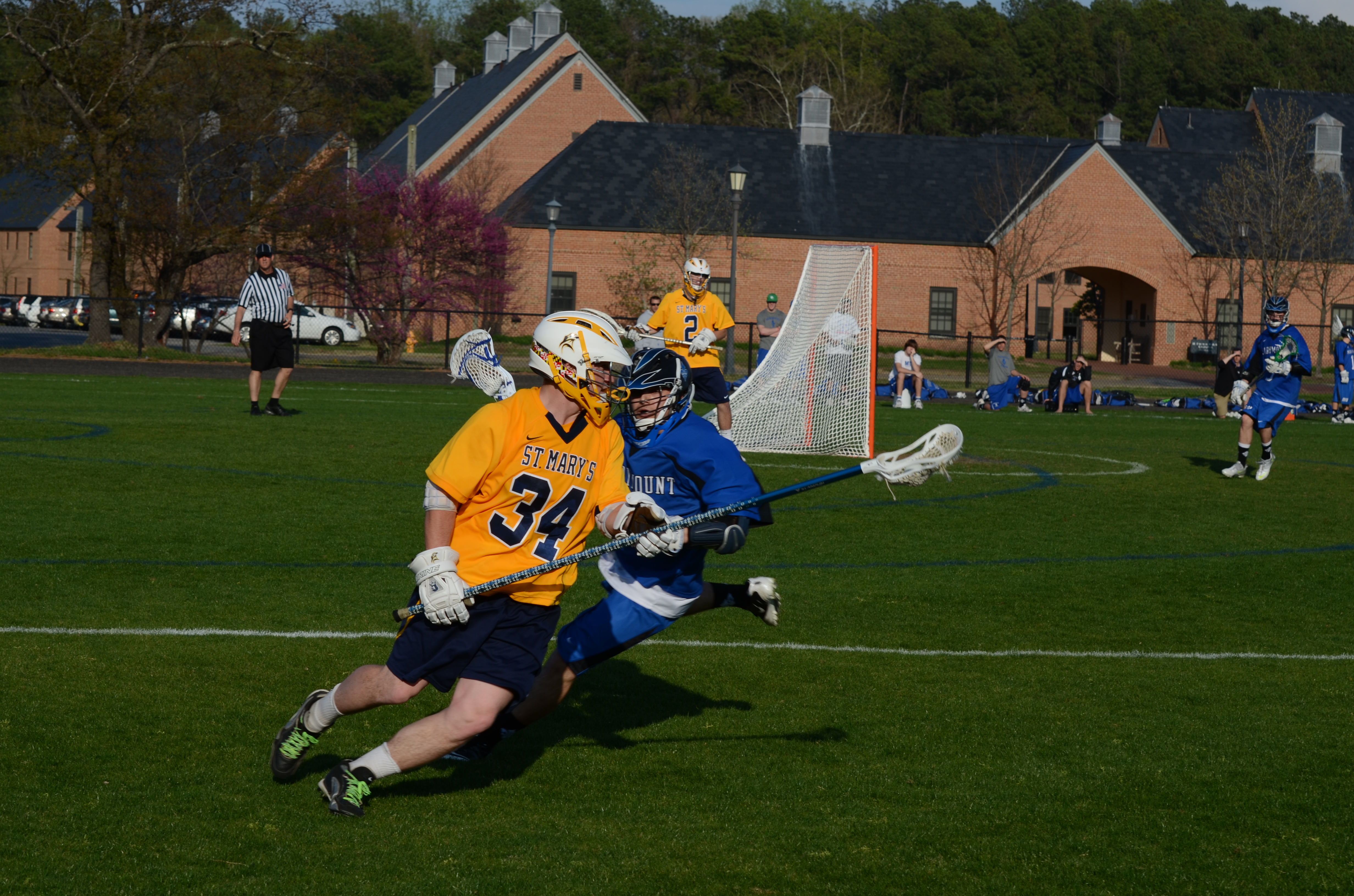 St. Mary's Seahawk lacrosse player in motion. Lacrosse is traditionally a highly popular St. Mary's sport as it is throughout Maryland. Photo by Daniel Wendell